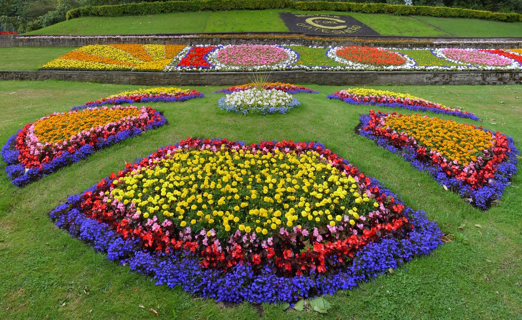 Spectacular bedding flowers at Felling Park, Gateshead